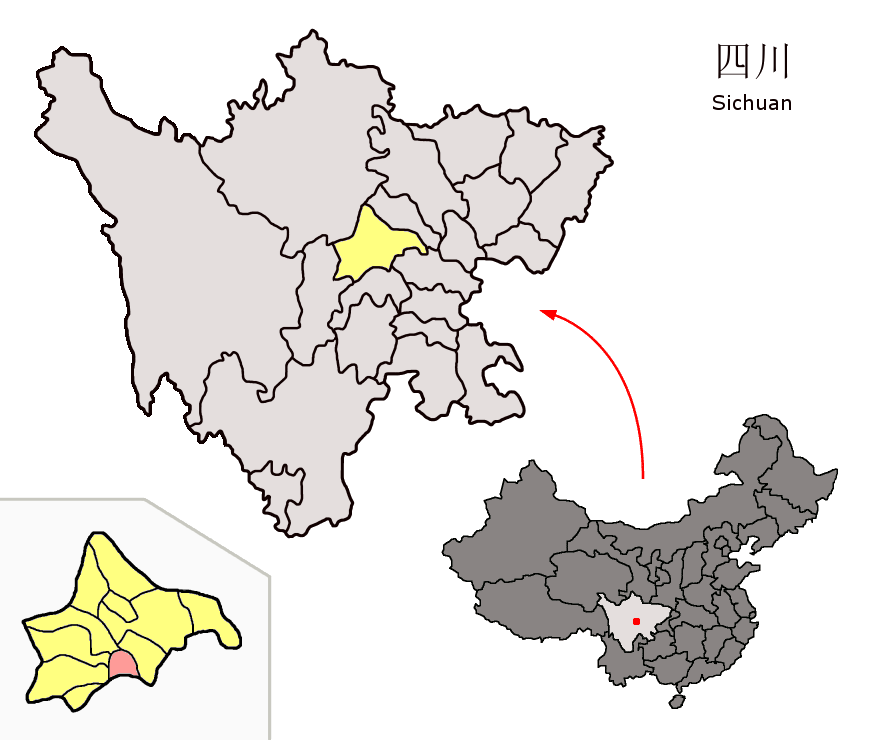 Location of Xinjin County (pink) and Chengdu Prefecture (yellow) within Sichuan province of China Map drawn in september 2007 using various sources, mainly : Sichuan province administrative regions GIS data: 1:1M, County level, 1990 Sichuan Counties map from